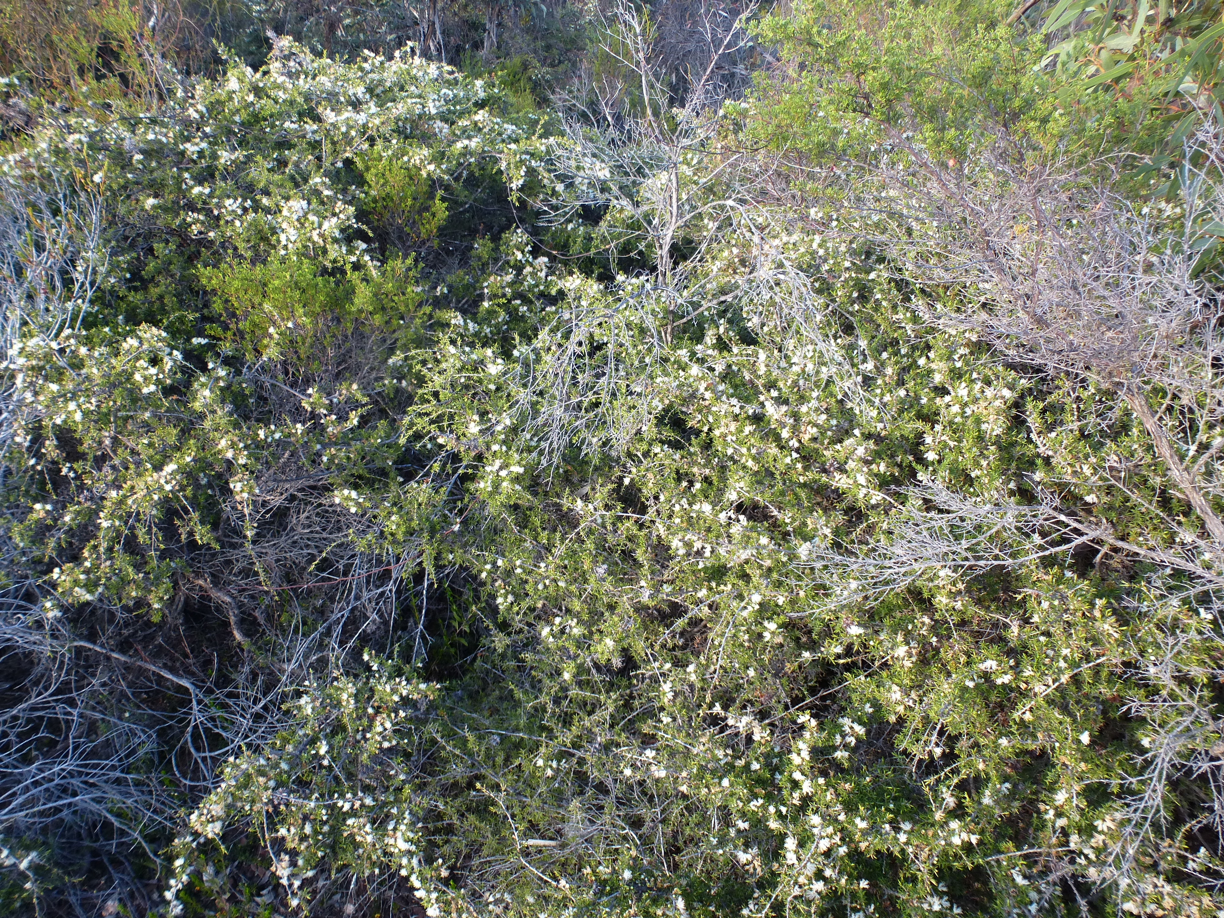 Melaleuca ulicoides growing 10 km east of Ravensthorpe